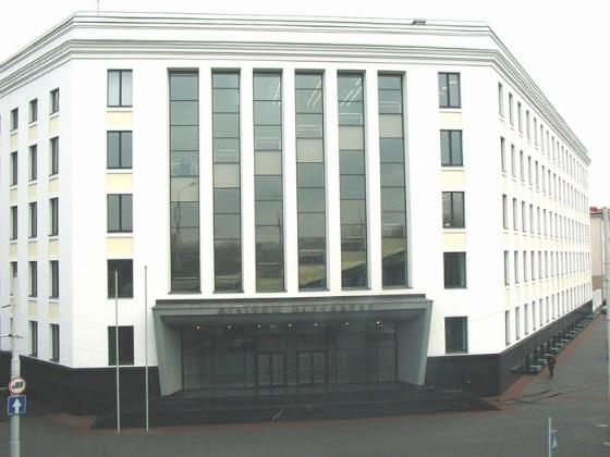 Faculty of Phyzics